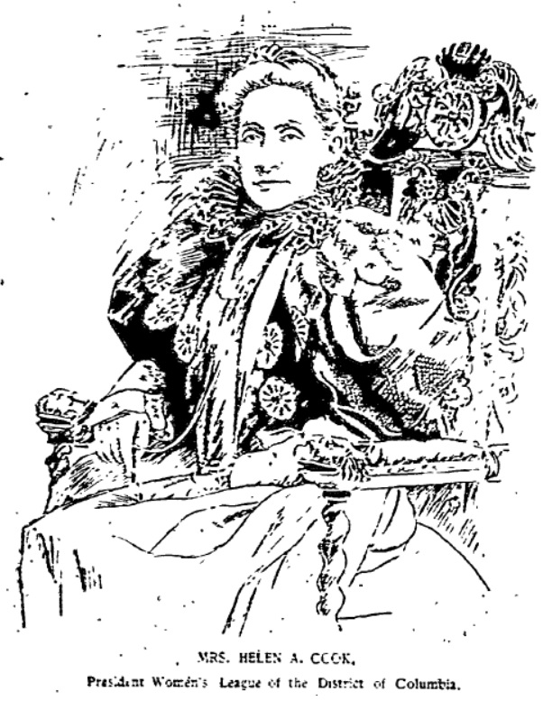 Mrs. Helen Appo Cook (1837-1913), President of the Colored Women's League of the District of Columbia. This organization consolidated with the National Federation of Afro-American Women in 1896 to form the National Association of Colored Women.